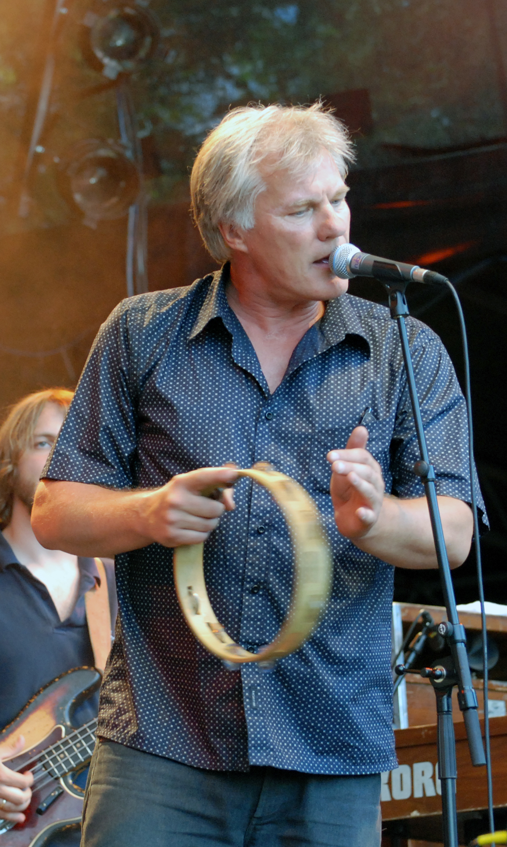 Carsten Loly - guest appearance with Knut Reiersrud band at Hamar Music Festival 2009.